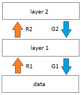 Wake-sleep algorithm visualisation